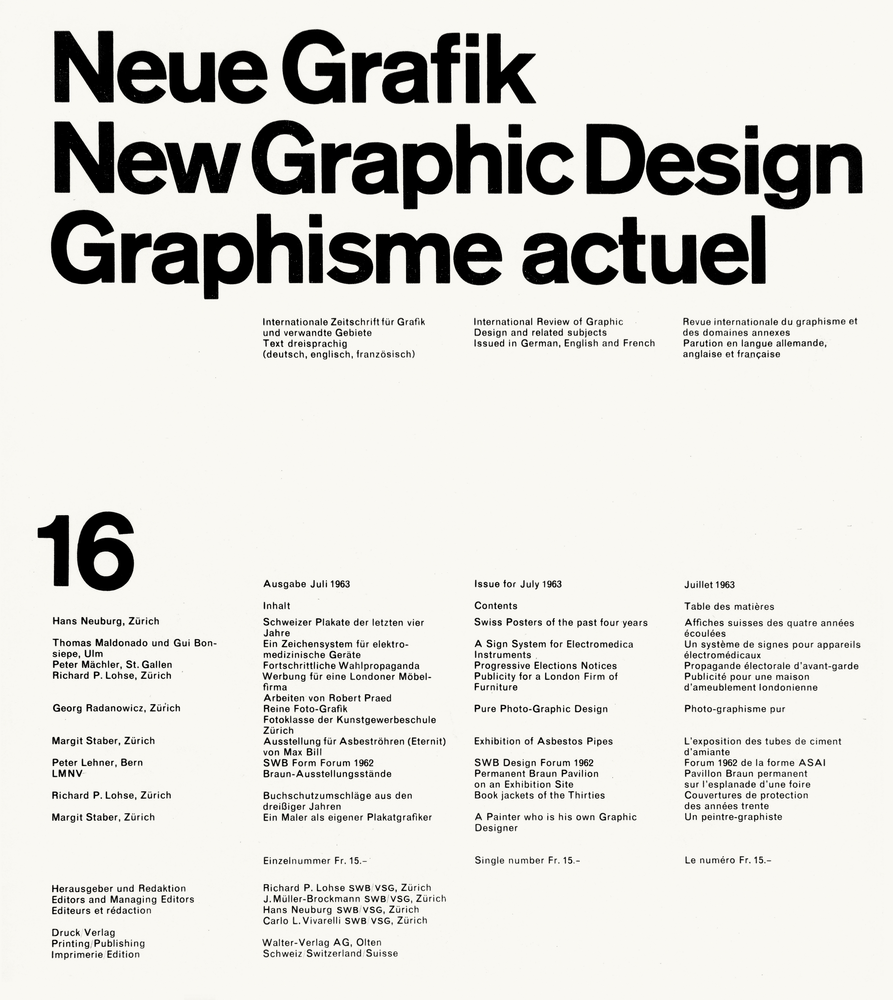 July 1963 issue of Neue Grafik